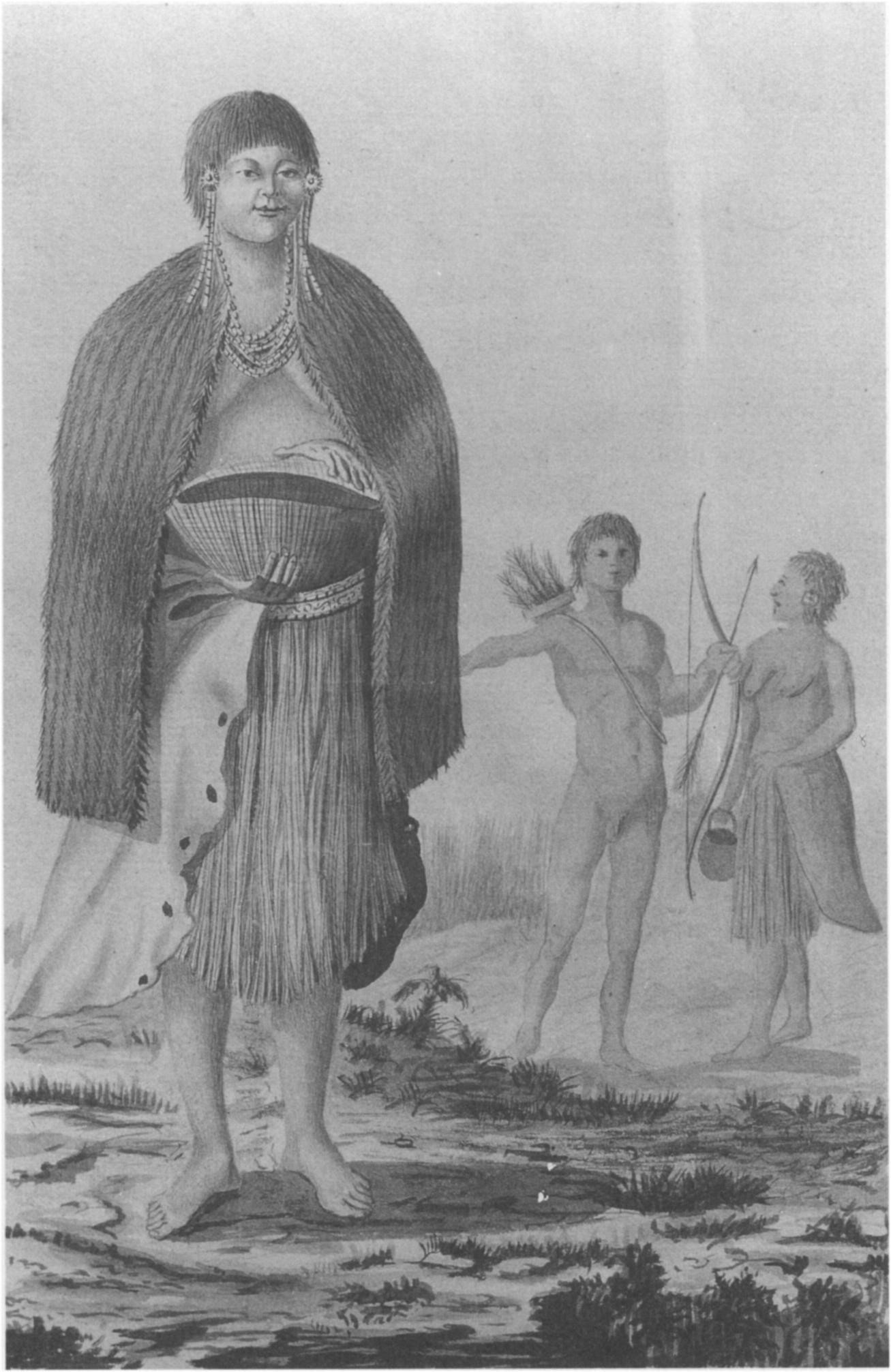 A American Indian native of the Monterey, California area circa 1791 as drawn by José Cardero.